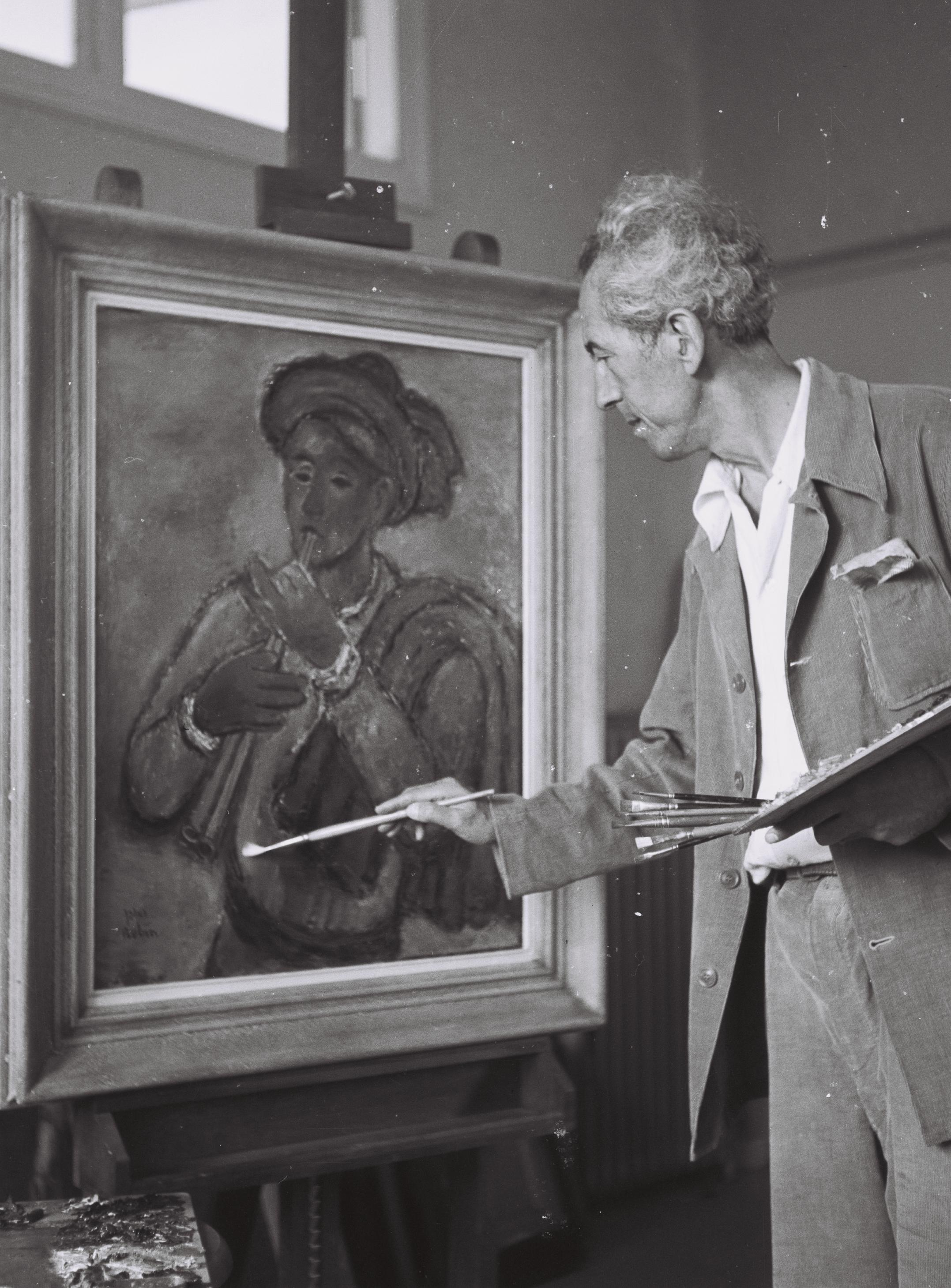 original description:PAINTER REUVEN RUBIN IN HIS TEL AVIV STUDIO.